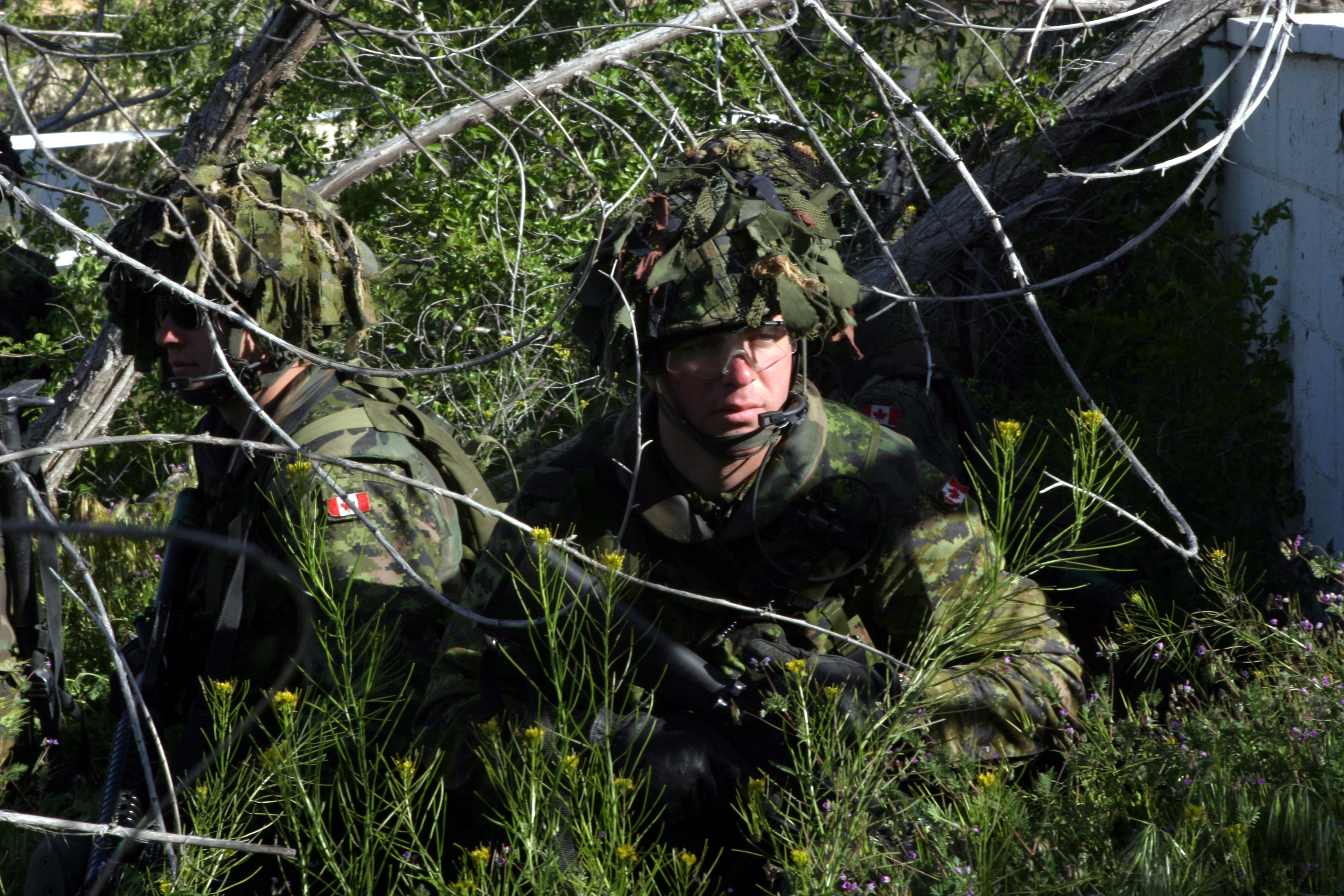 Private Rodney Carmichael and Private Shawn Thorburn are riflemen with C Company, 3rd Battalion, Princess Patricia's Canadian Light Infantry. Privates Carmichael and Thorburn post security on the final day of MAGTEFX while their platoon makes a hit on a house to fight back enemy insurgents. C Company, 3 PPCLI, came to the 13 MEU's TRUEX and MAGTEFX that was held at the Southern California’s Logistics Air Port in April 2005.